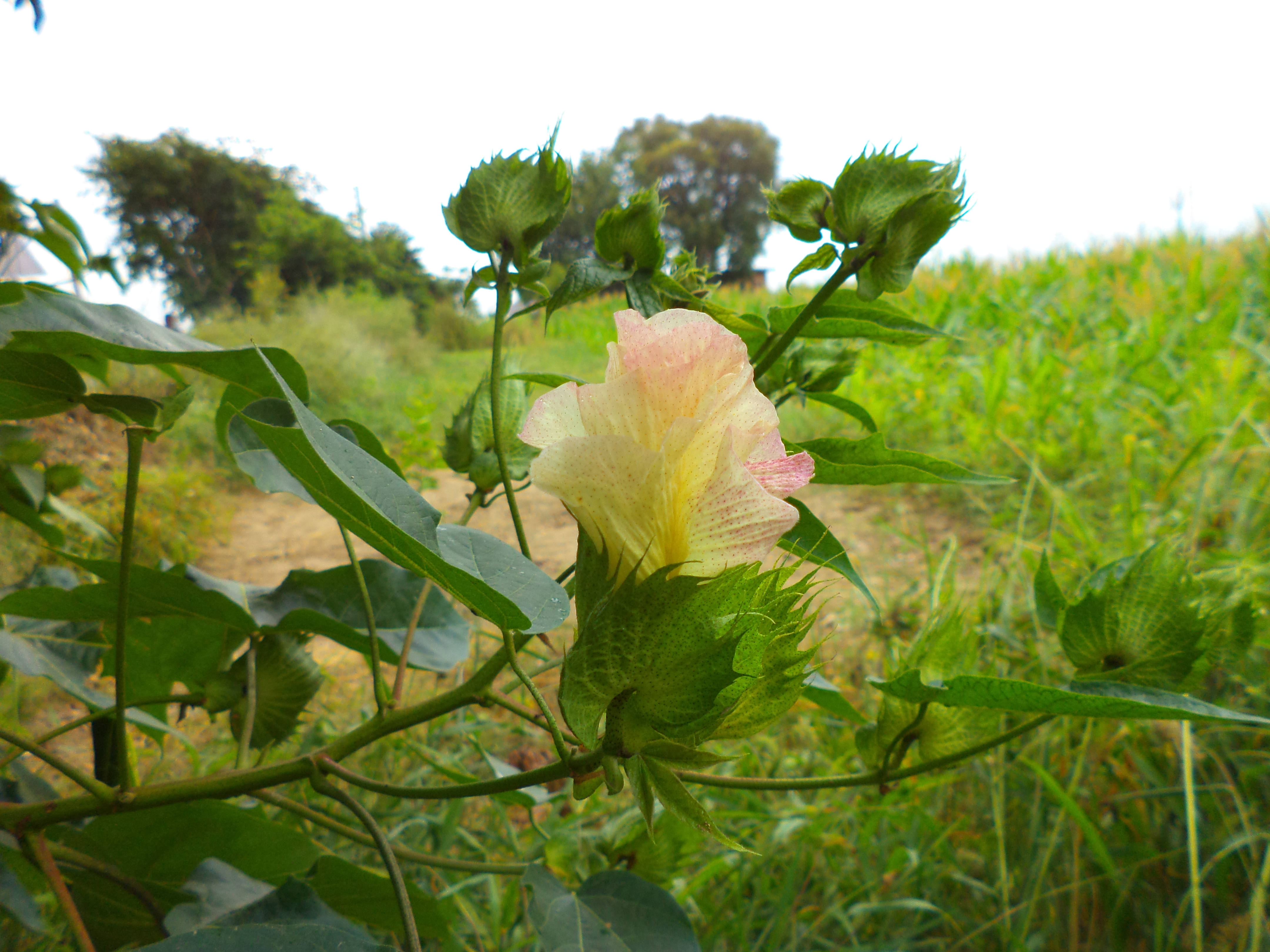 Cotton plant in punjab